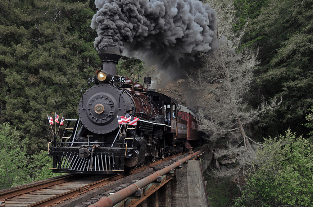 Sunday June 62010, photo special with 2-8-2 #45 on the California Western (aka "The Skunk") Eastbound at Tunnel #1 and first crossing of the Noyo River